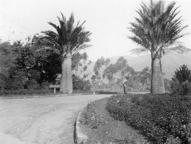 lotus land en 1900